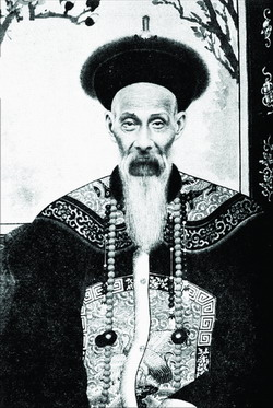 Xu Yingkui